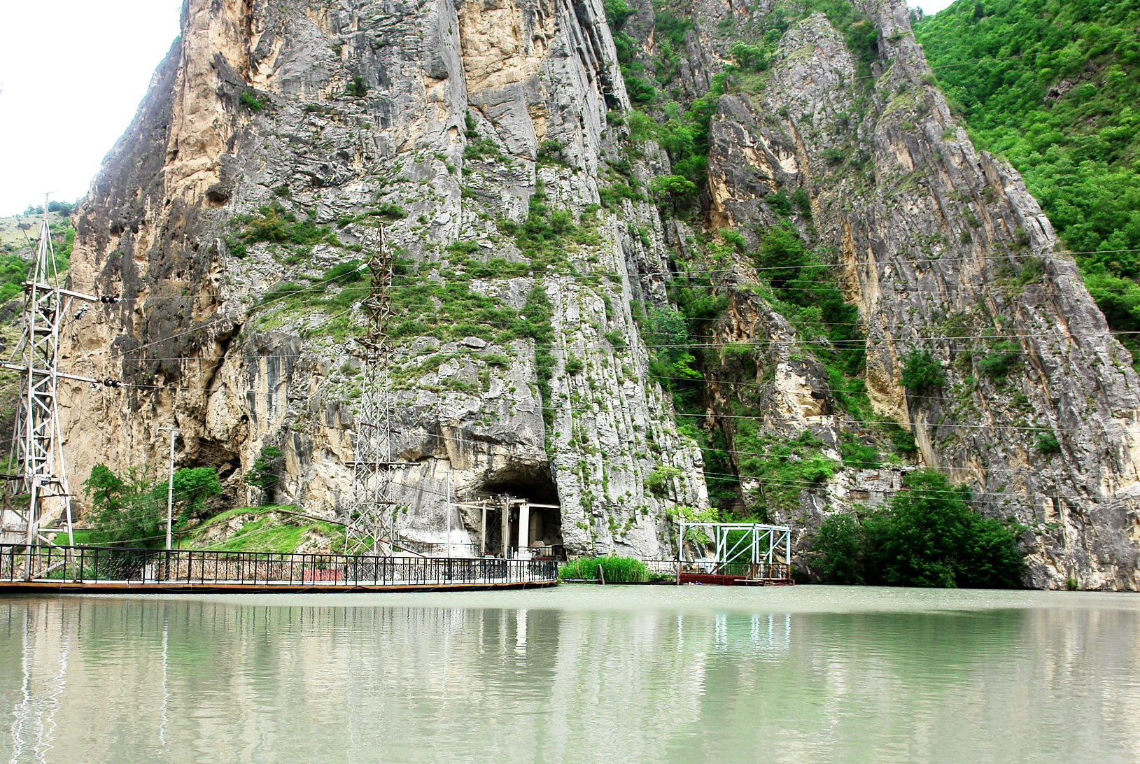 Gergebil HPP